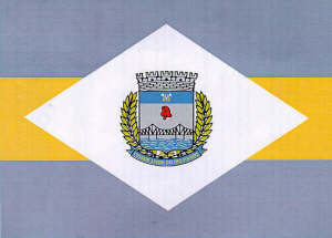 Flag of the town of São José do Rio Pardo (São Paulo, Brazil)